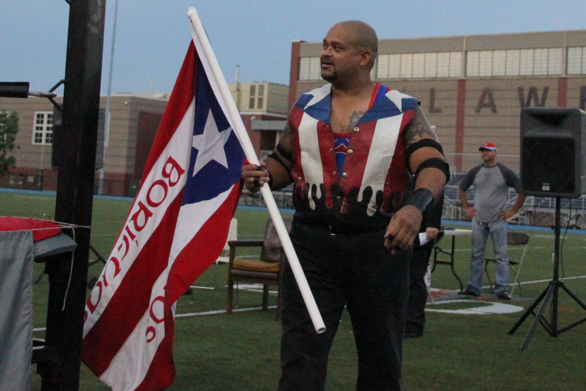 Savio Vega at a professional wrestling event in Lawrence, MA in June 2013, with a "Los Boricuas" flag. Cropped from original.